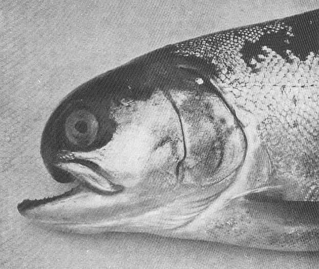 1 1/2-lb. Deformed Sea-Trout, caught in the Tay. July 1904 Subject: Brown trout, Fishes--Diseases Tag: Fish